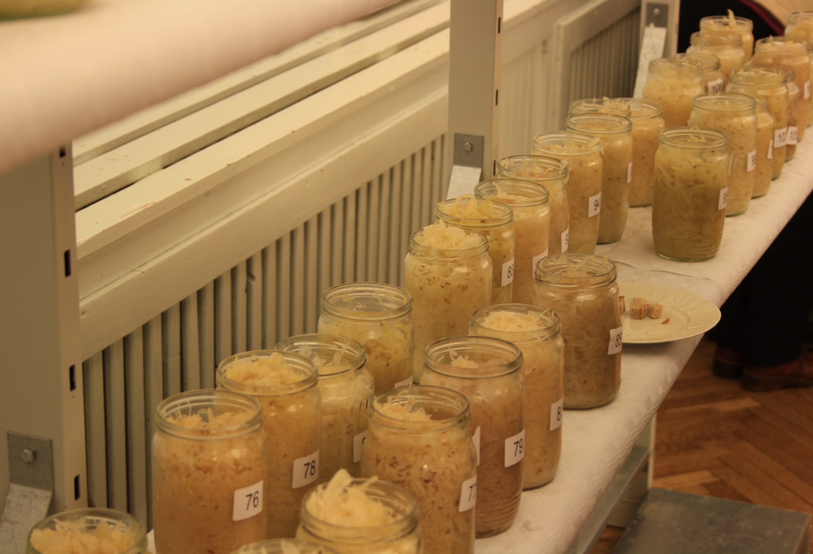 Sauerkraut from festival of Sauerkraut. Pohořelice. Brno-Country District, South Moravian Region, Czech Republic